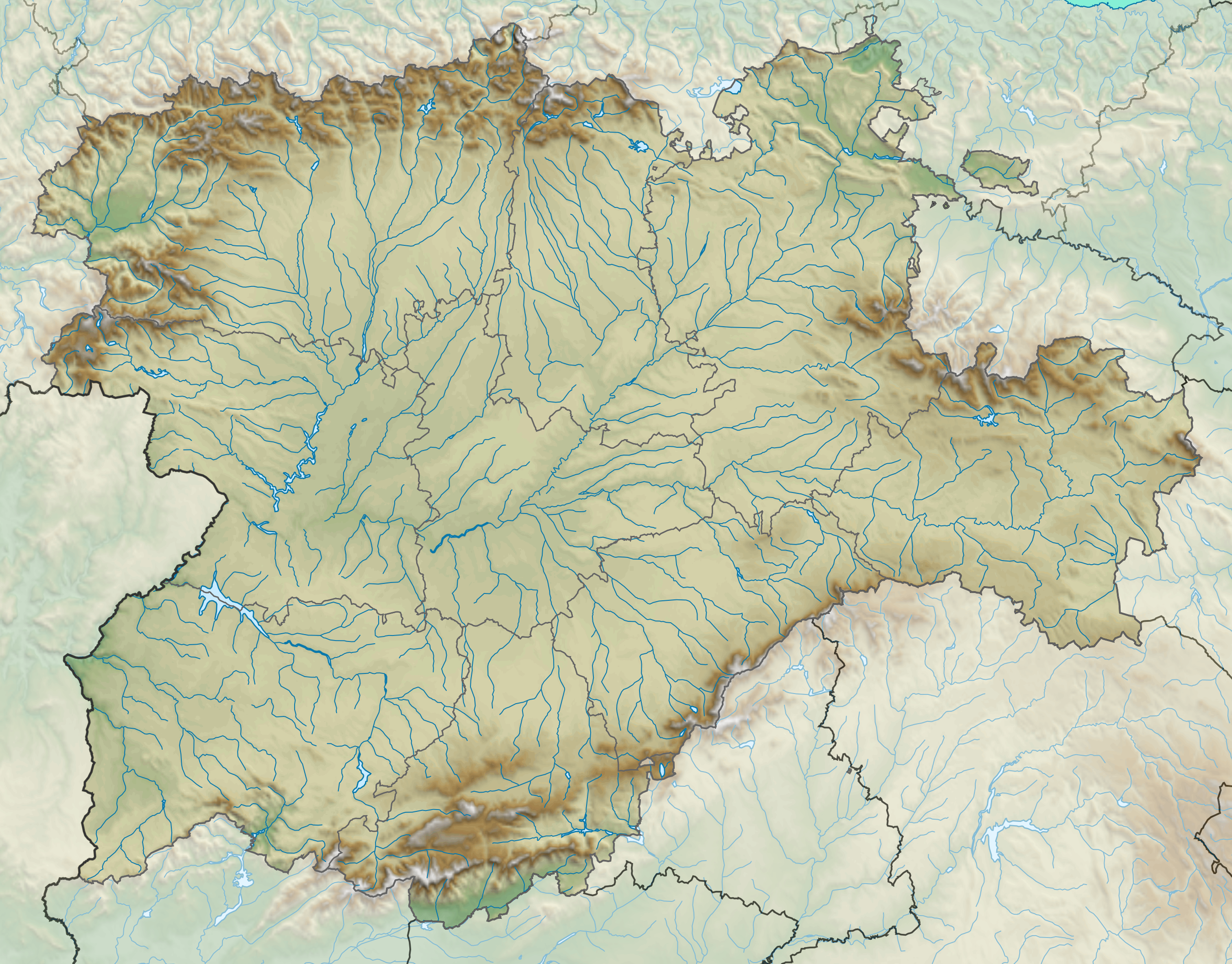 Location map relieve of Castile and León Equirectangular projection, N/S stretching 130 %. Geographic limits of the map: N: 43.329494° N S: 39.949055° N W: 7.232714° O E: 1.627677° O